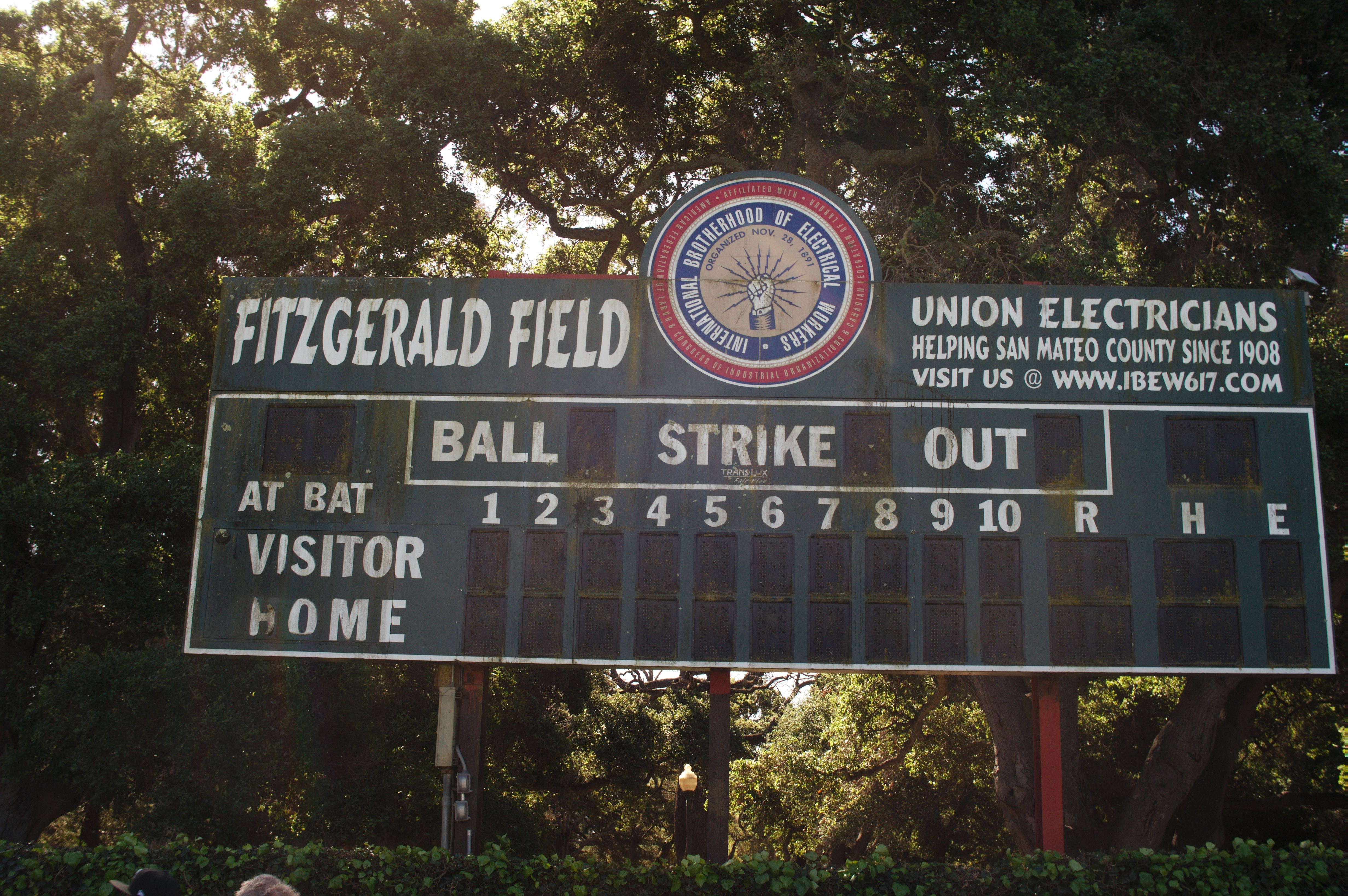 Fitzgerald Field's scoreboard, showing some moss. Scoreboard for Fitzgerald Field, in Central Park, San Mateo, California. Appears to be a Fair-Play by Translux model BA-7126.